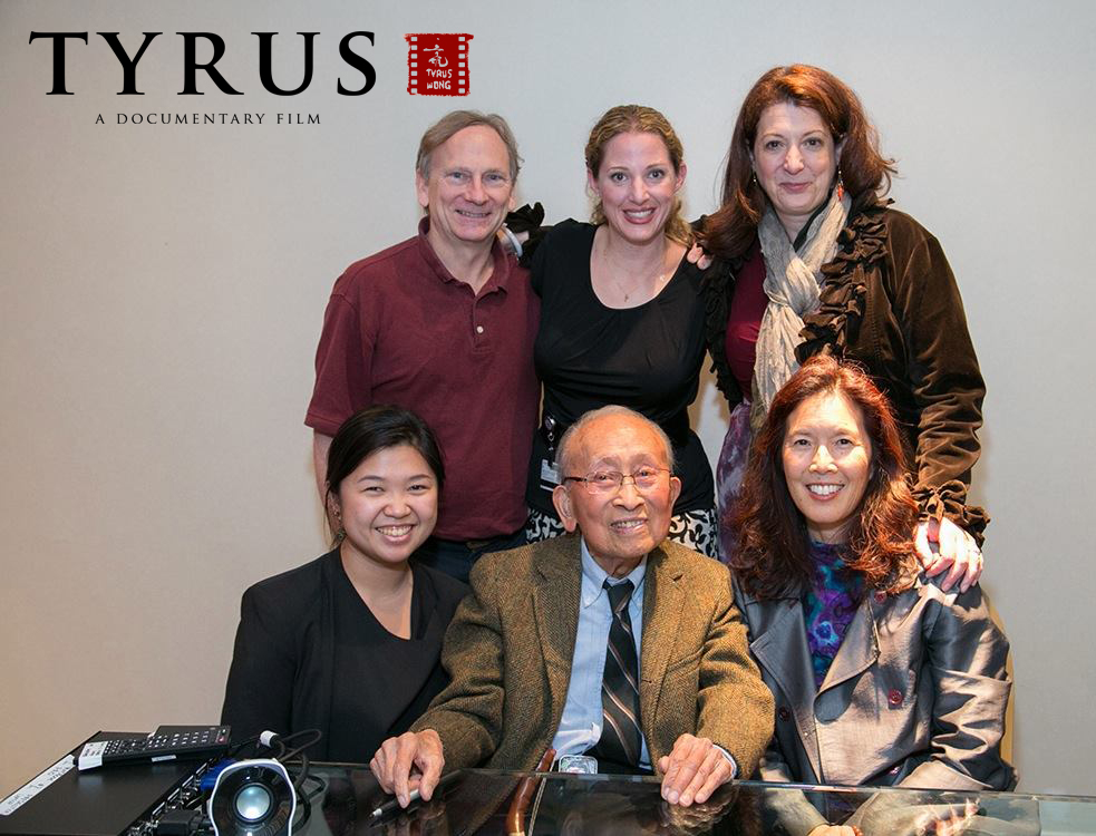 Part of the team making feature documentary TYRUS. With Tyrus Wong. From left to right top to bottom: Tim Craig, Tamara Khalaf, Gwen Wynne, Frances Chang, Tyrus Wong, Pamela Tom